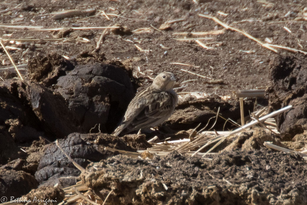 Chestnut-collared Longspur (female) | Davis Pasture | Sonoita | AZ|2018-02-09|11-56-45.jpg